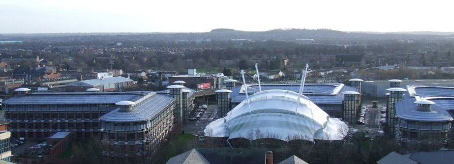 The HM Revenue and Customs complex, in Nottingham UK.